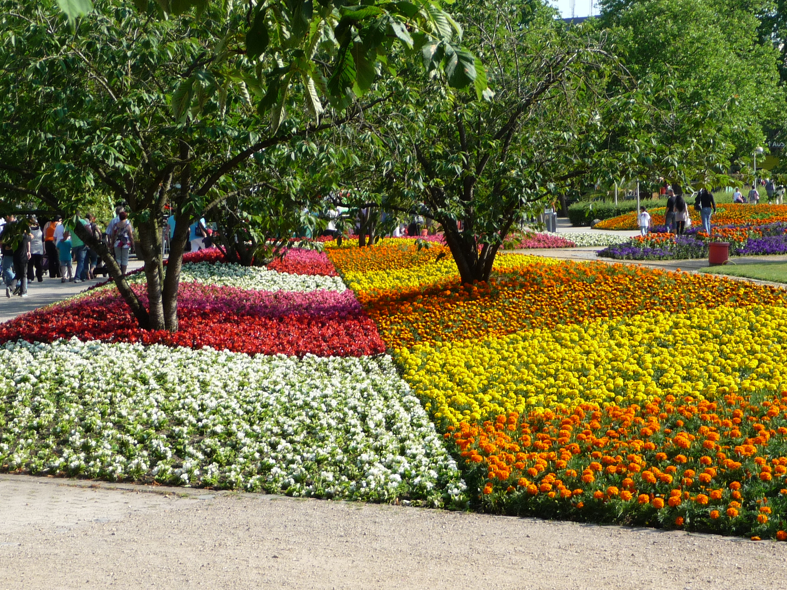 Luisenpark Mannheim